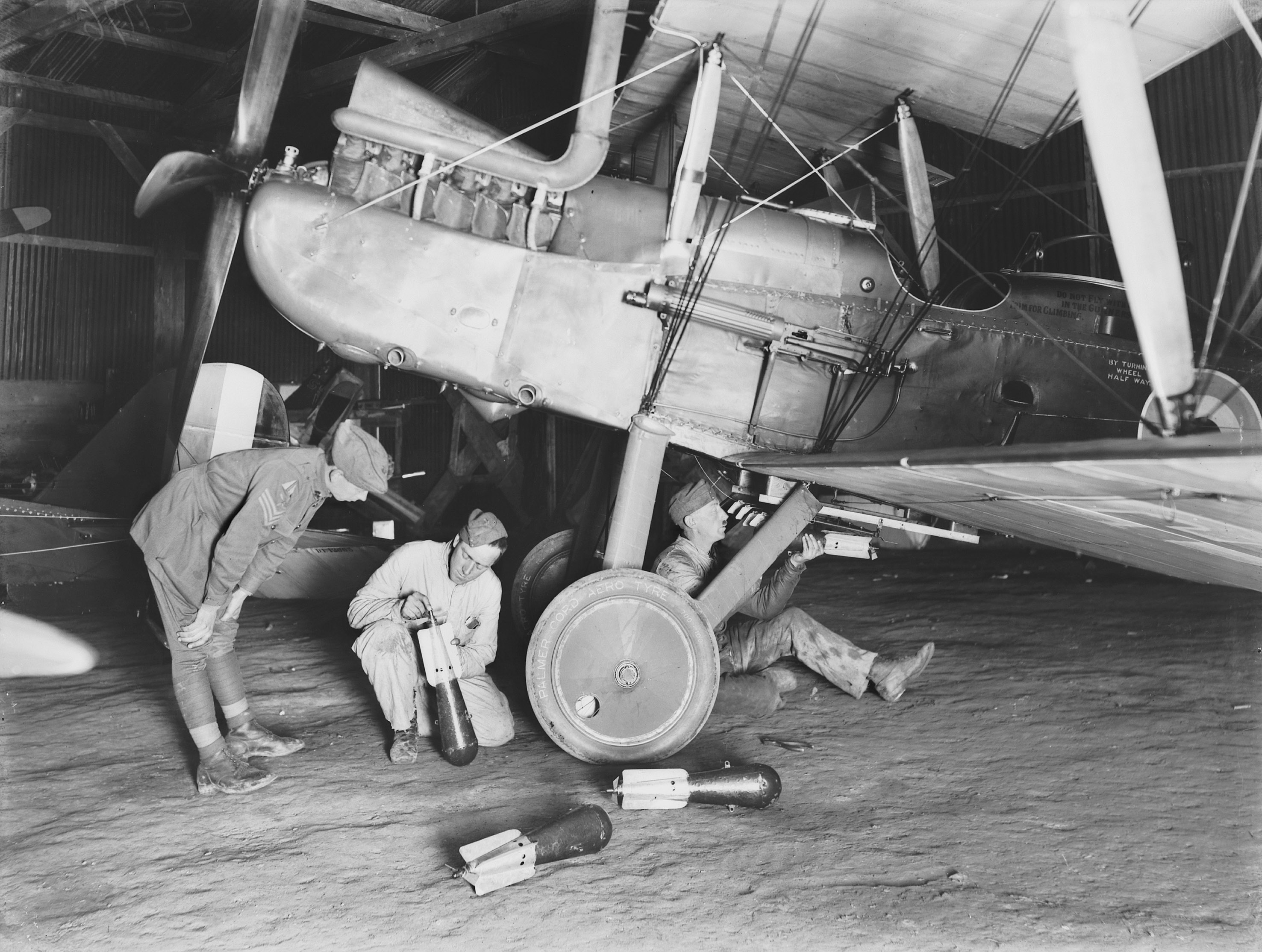 ID Number: E01176 Maker: Hurley, James Francis (Frank) Place made: France: Nord Pas de Calais, Pas de Calais, Savy Date made: 22 October 1917 An unidentified member of the 69th Australian Squadron, later designated No. 3 Australian Flying Corps (AFC), fixing incendiary bombs to an R.E.8 aircraft at the AFC airfield north west of Arras. The entire squadron was operating from Savy (near Arras) on 22 October 1917, having arrived there on 9 September after crossing the channel from the UK. 69 Squadron was temporarily attached to the RFC while they gained experience on the Arras front. They began moving to a more permanent base at Bailleul on 12 November, operating as a full Corps squadron attached to 1 Anzac Corps. The last AFC aircraft and personnel left Savy on 16 November 1917. Rights Info: No known copyright restrictions. This photograph is from the Australian War Memorial's collection Persistent URL